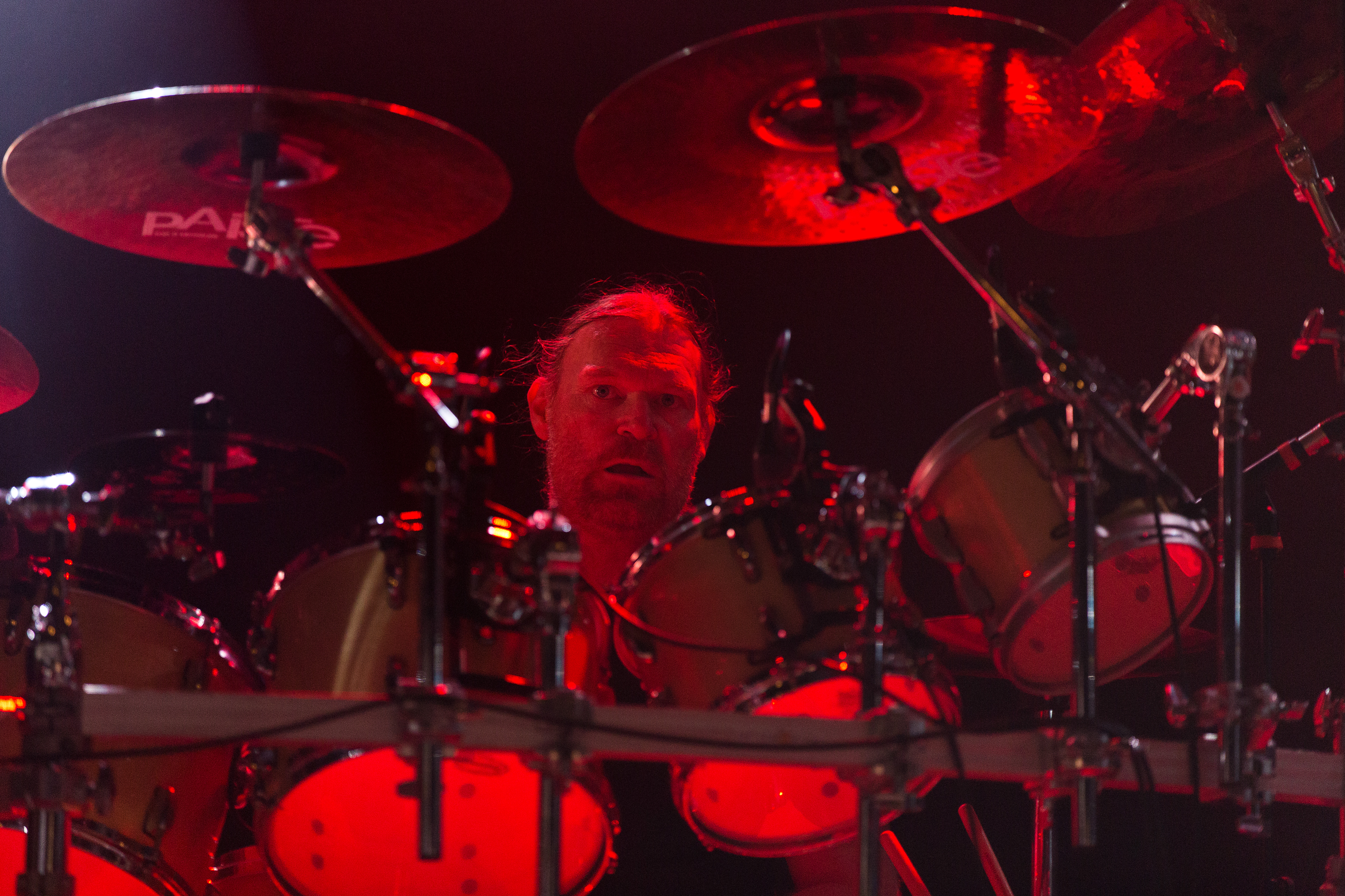 The Norwegian viking/progressive metal band Enslaved at the 25. Wave-Gotik-Treffen 2016 in Leipzig/Germany.